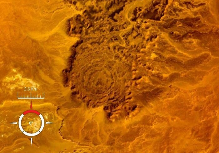 Tin Bider. meteorite impact crater in Algeria.